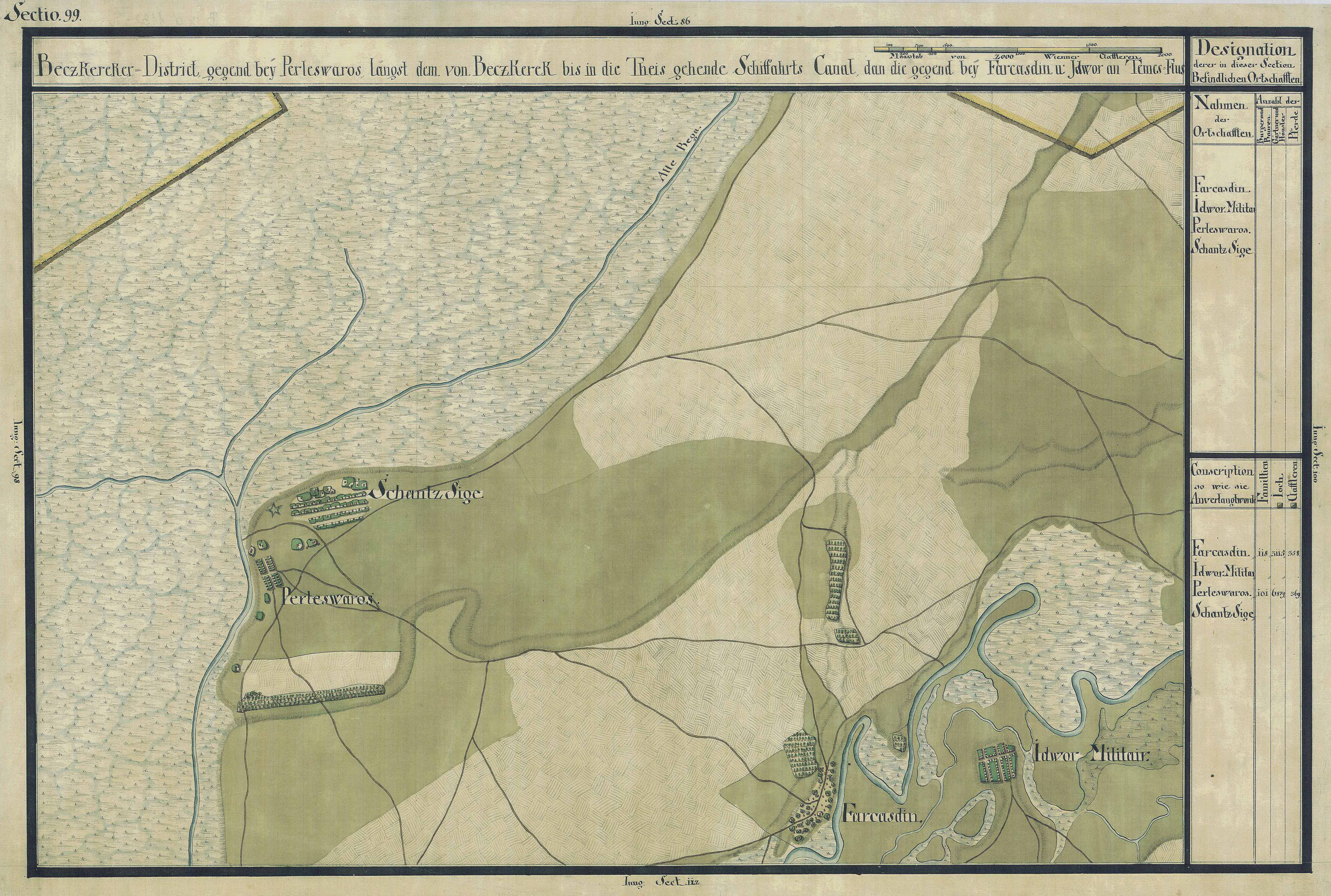 The Banat region in the cadastral maps: Josephinische Landesaufnahme, 1769-72. Josephinische Landaufnahme pg099